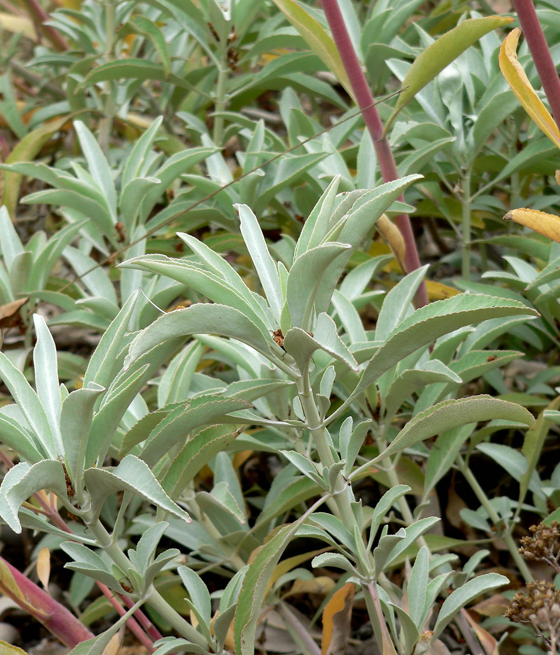 Photo of Salvia apiana at the Regional Parks Botanic Garden